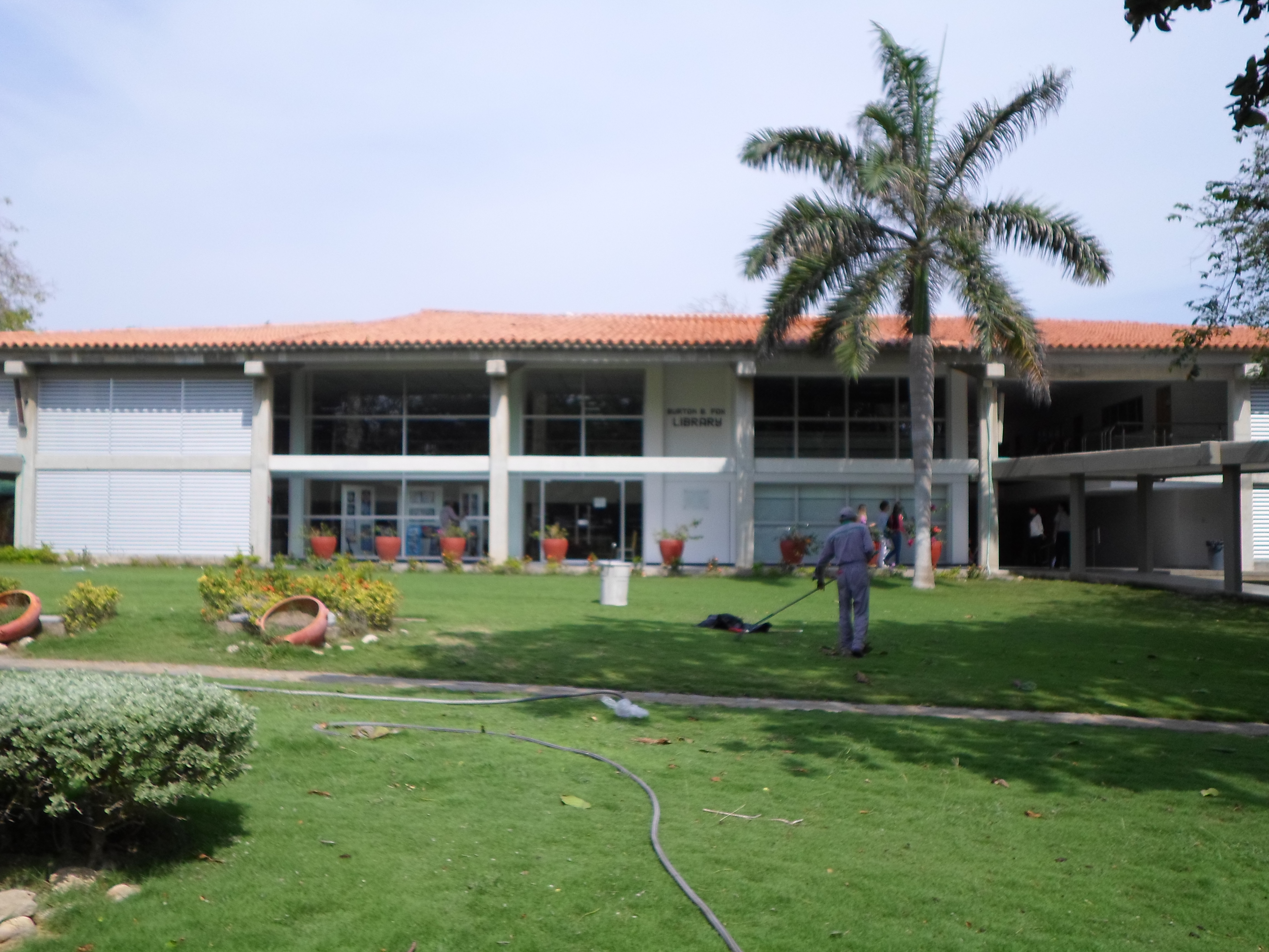 Burton B. Fox Library. Renovated in 2012, it is the hub of academic learning at KCP.